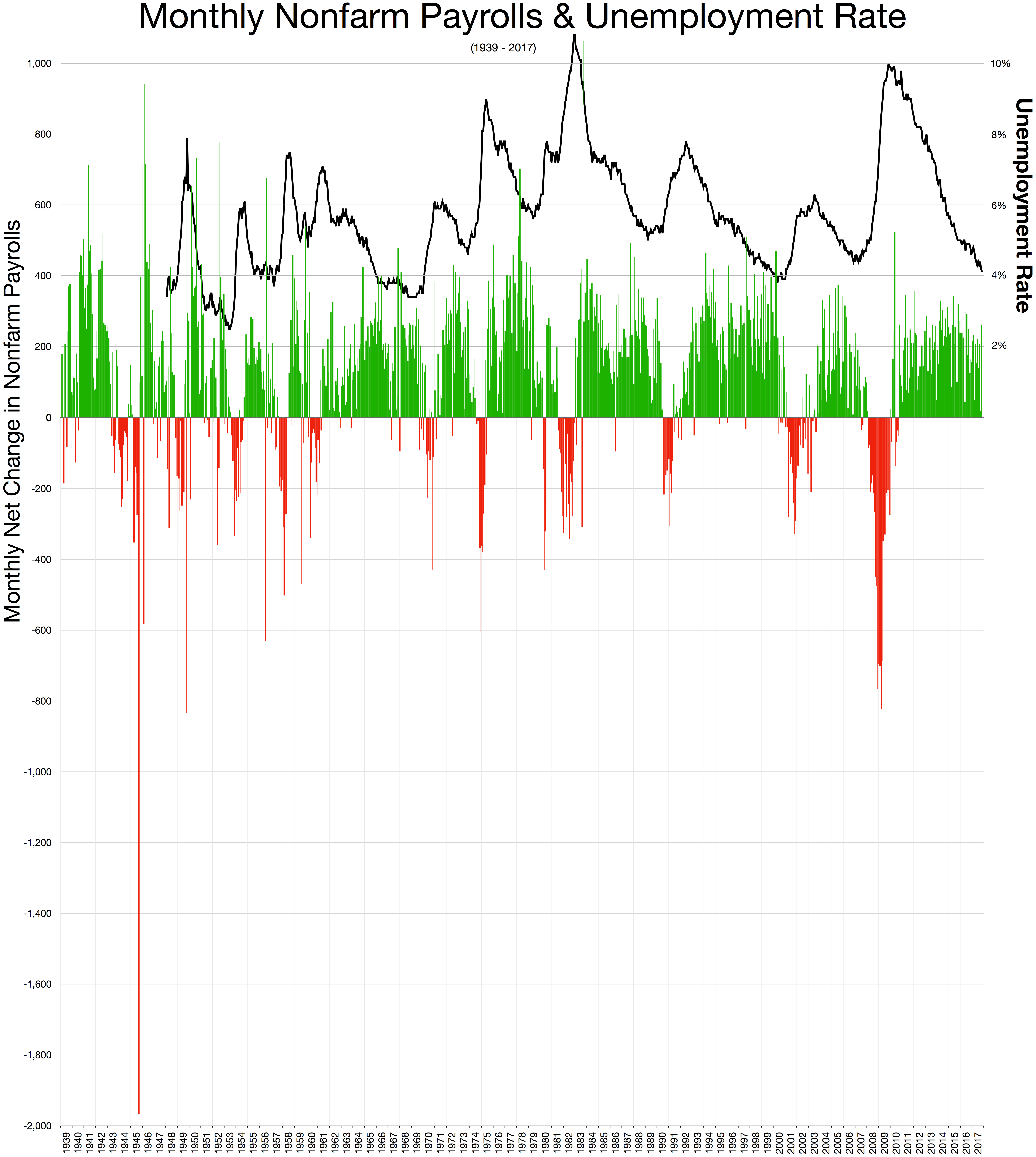 Monthly job numbers and unemployment